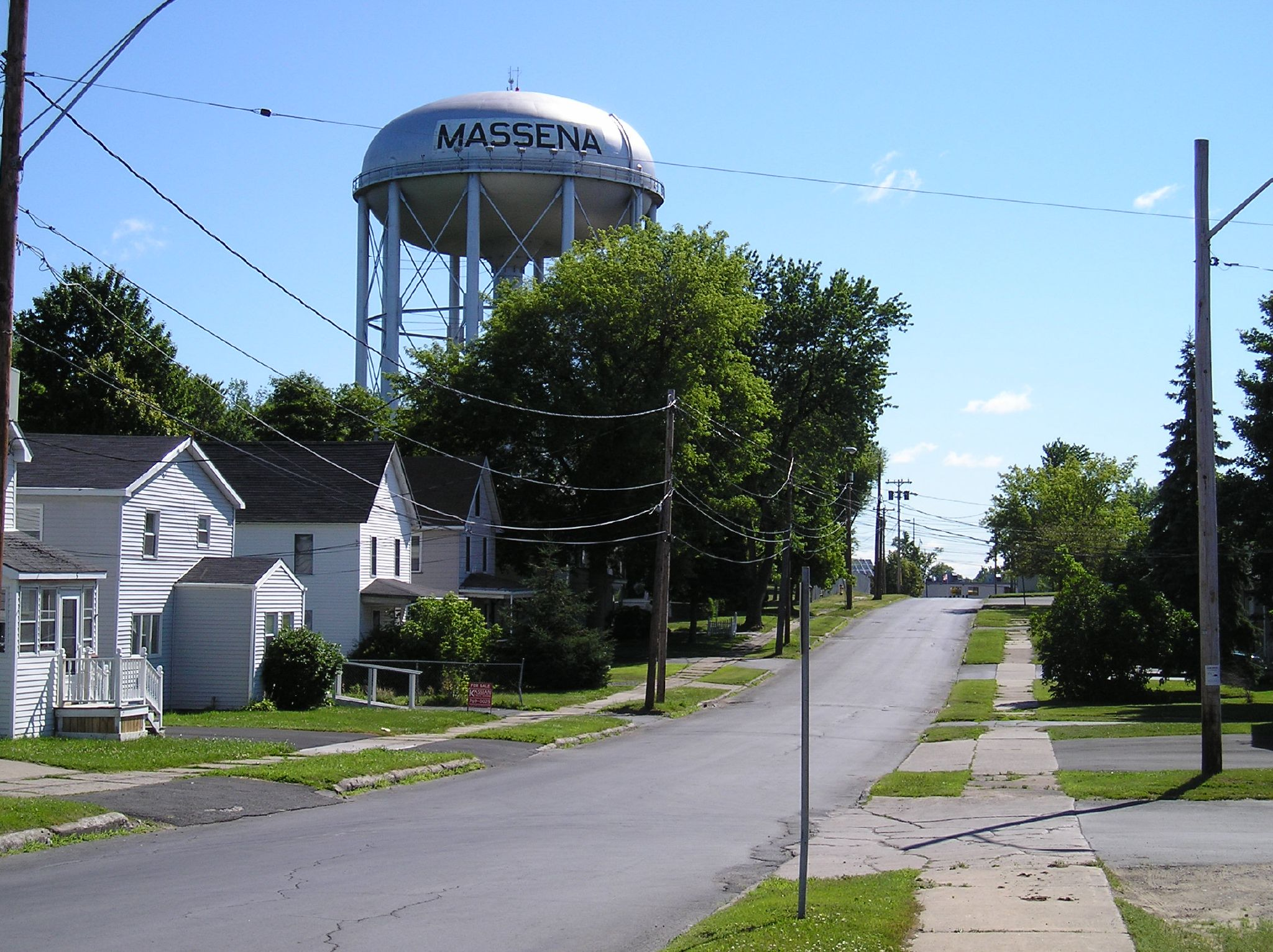 The water tower in Massena, NY.